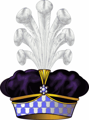 Prince of Empire / książę ceserstwa